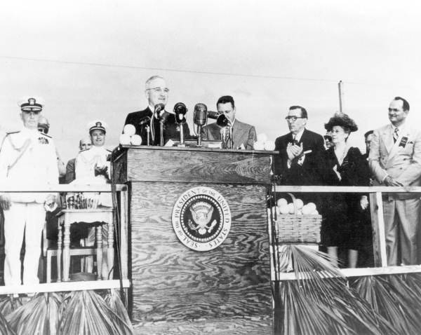 Harry Truman dedicating Everglades National Park (L-R: Admiral Leahy, President Truman, Secretary of the Interior J.A. Krug, Senator Claude Pepper, Mrs. Jennings, and August Burghard.)